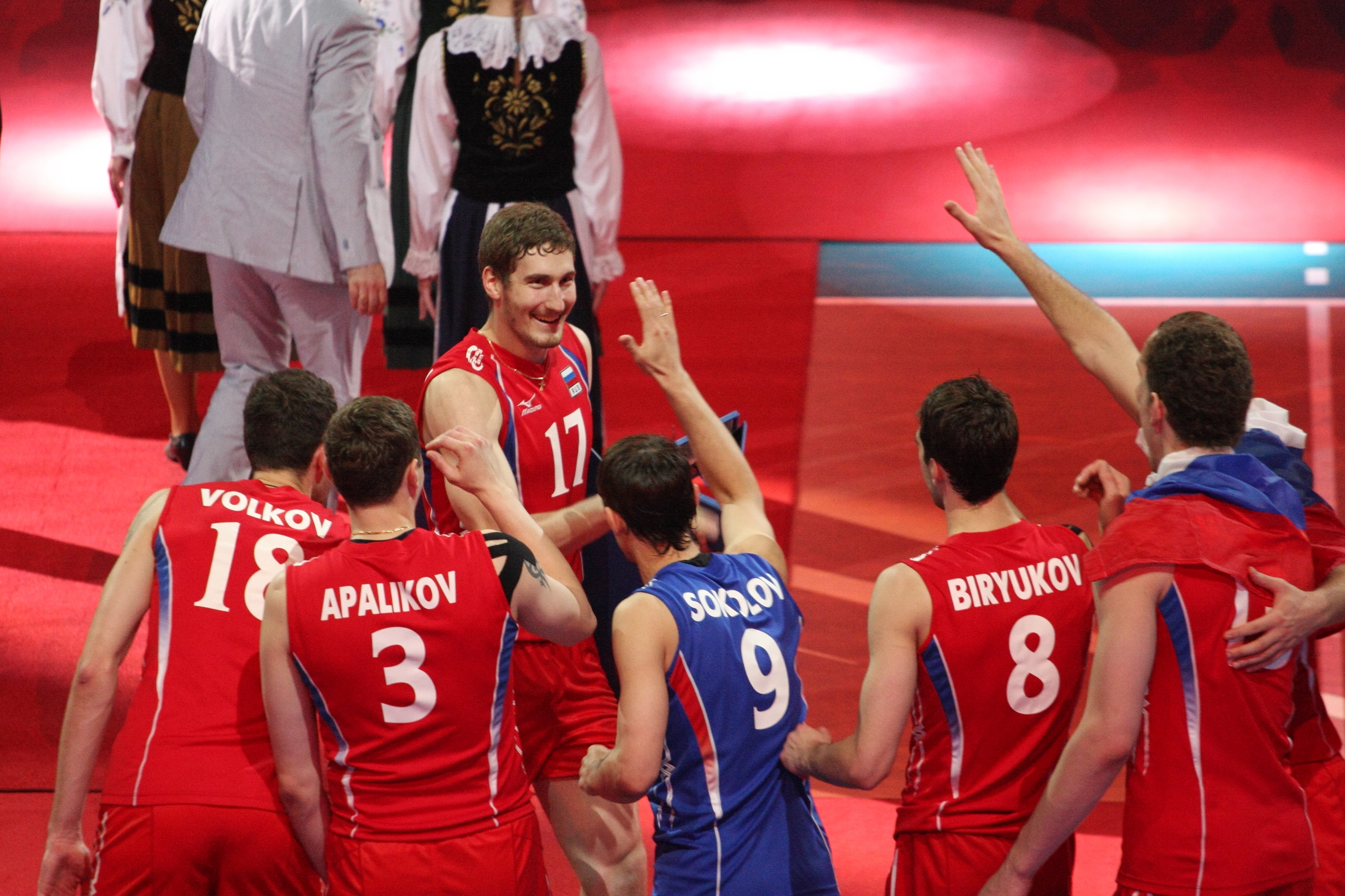 World League Final, Gdańsk 2011 Brazil vs Russia (2:3)